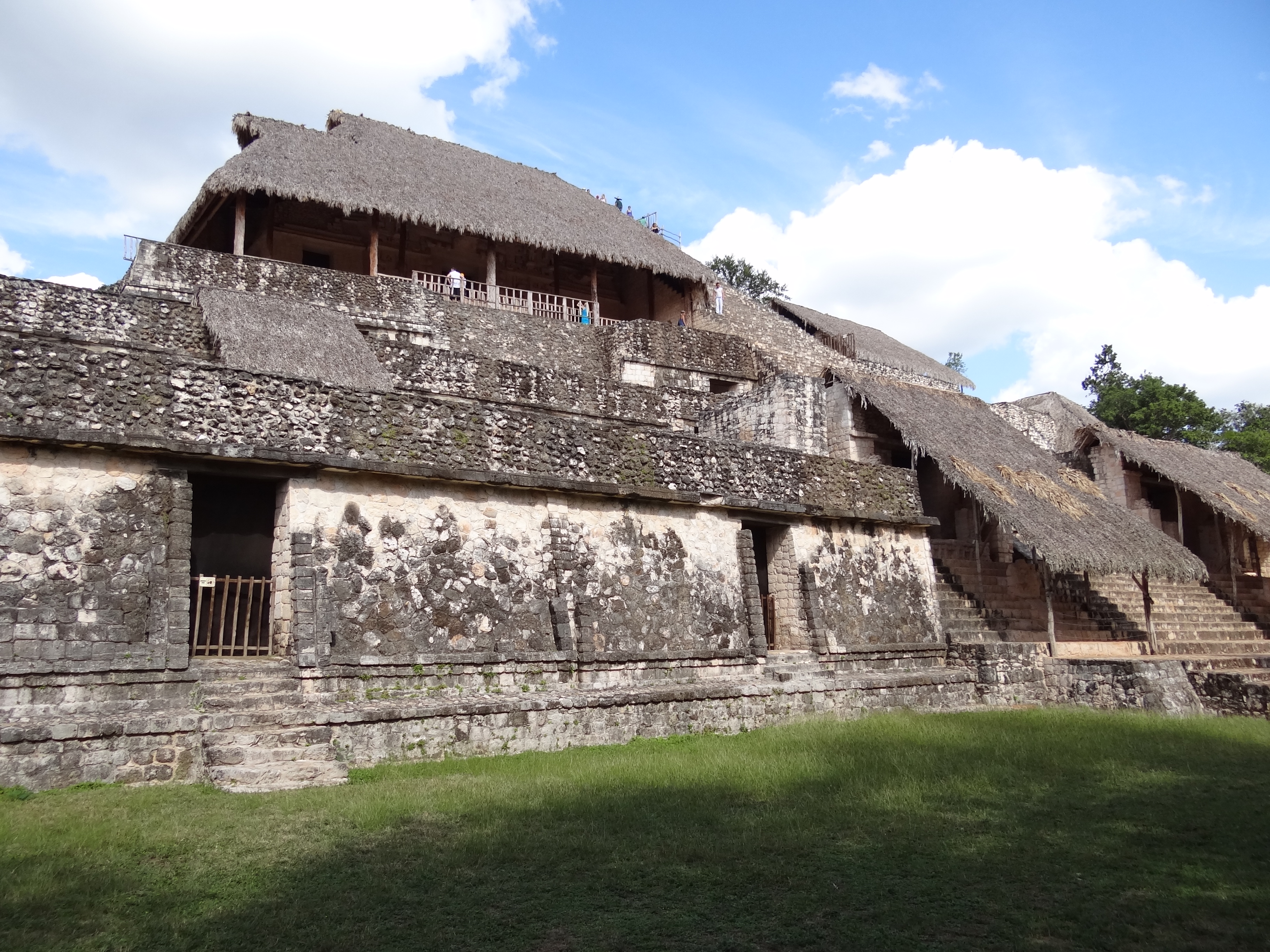 Acropolis - Ek Balam Archaeological Site - Near Valladolid - Yucatan - Mexico - 01